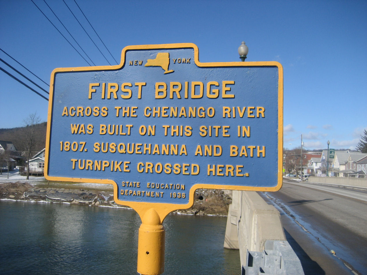 Historic marker of the first bridge over the Chenango River, built on this site in 1807. The Susquehanna and Bath Turnpike crossed here.